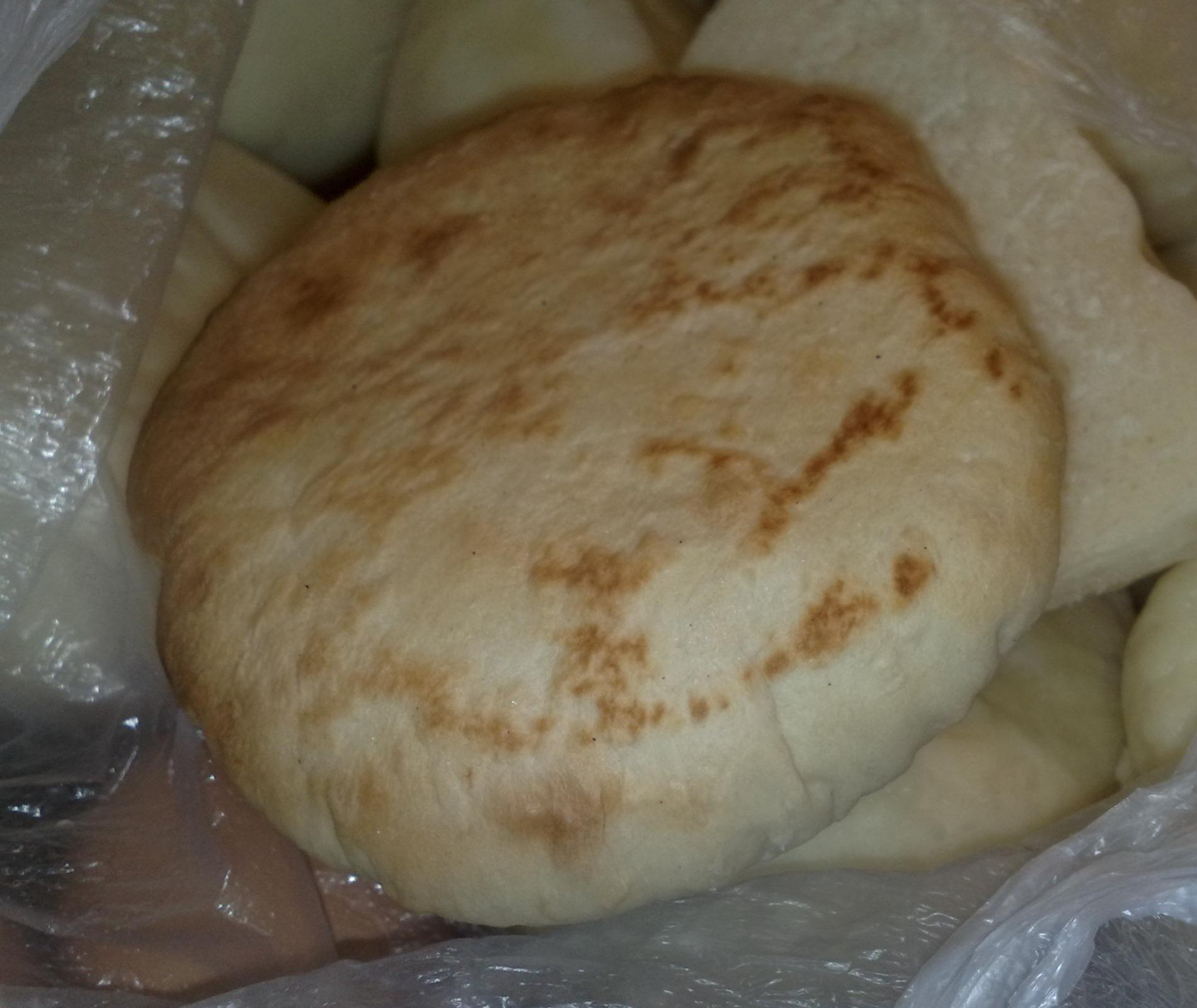 Huoshao